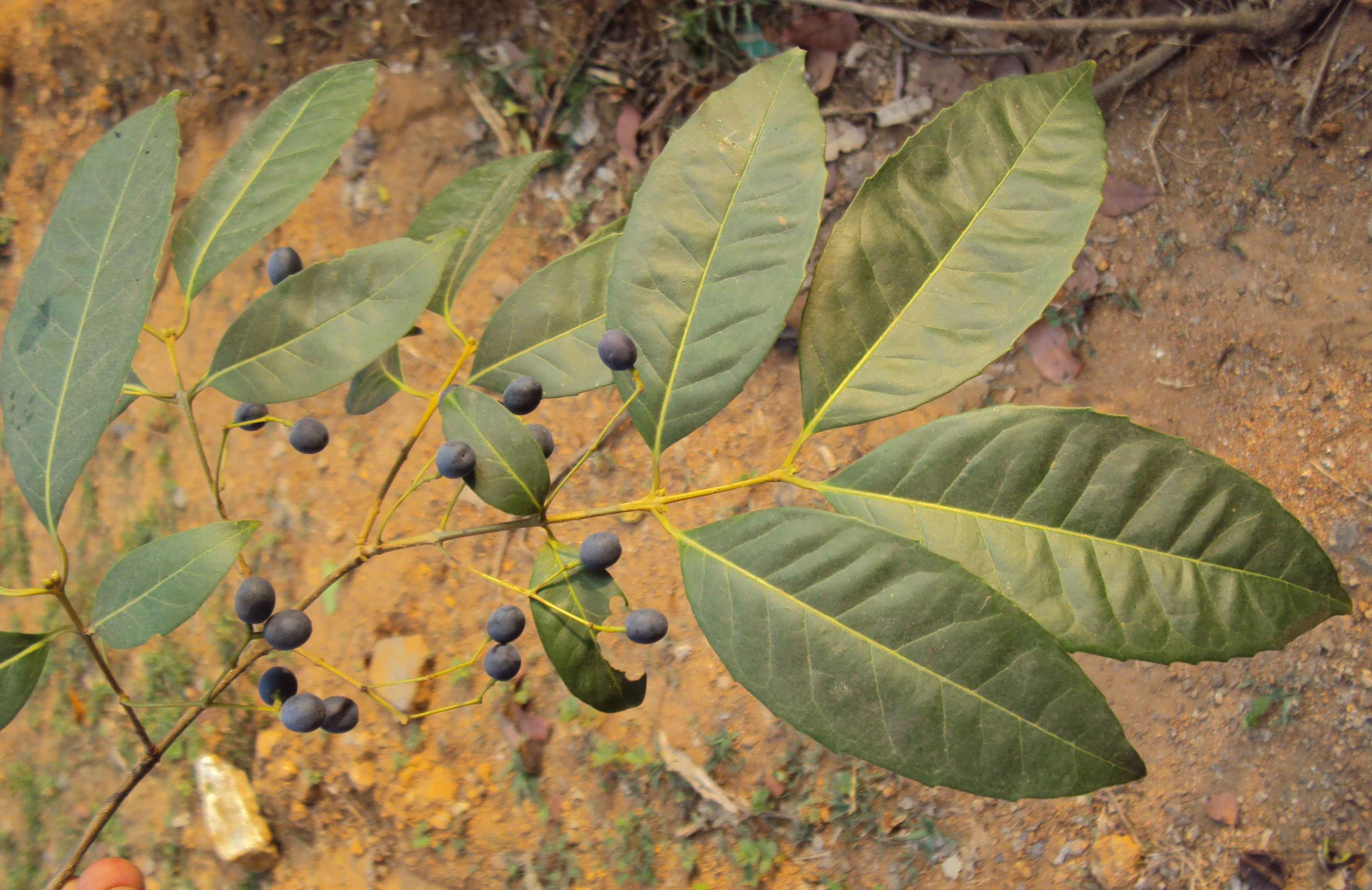 Olea dioica